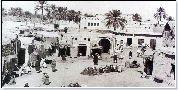 souq al-qatif, 1945